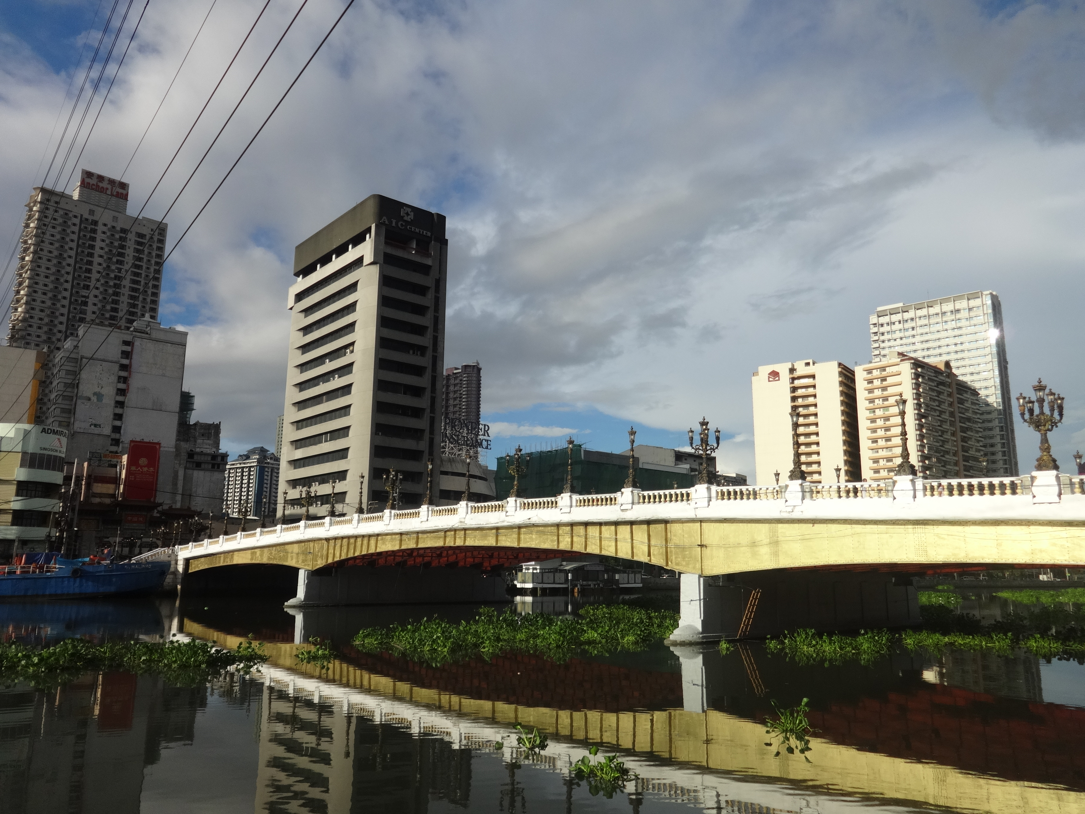 Newly-renovated Jones Bridge in Manila